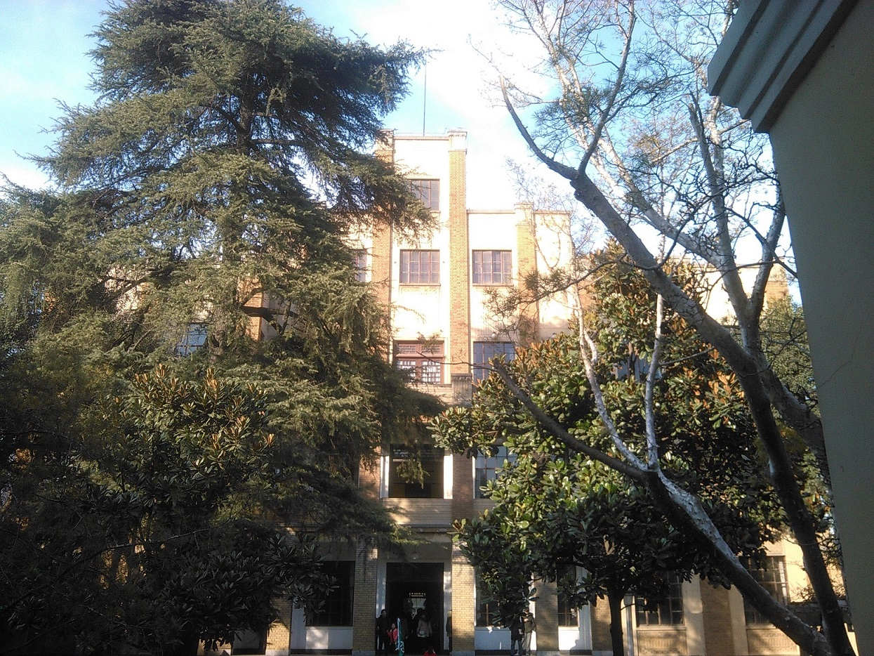 The Zichao Palace in the Presidential Palace,Nanjing